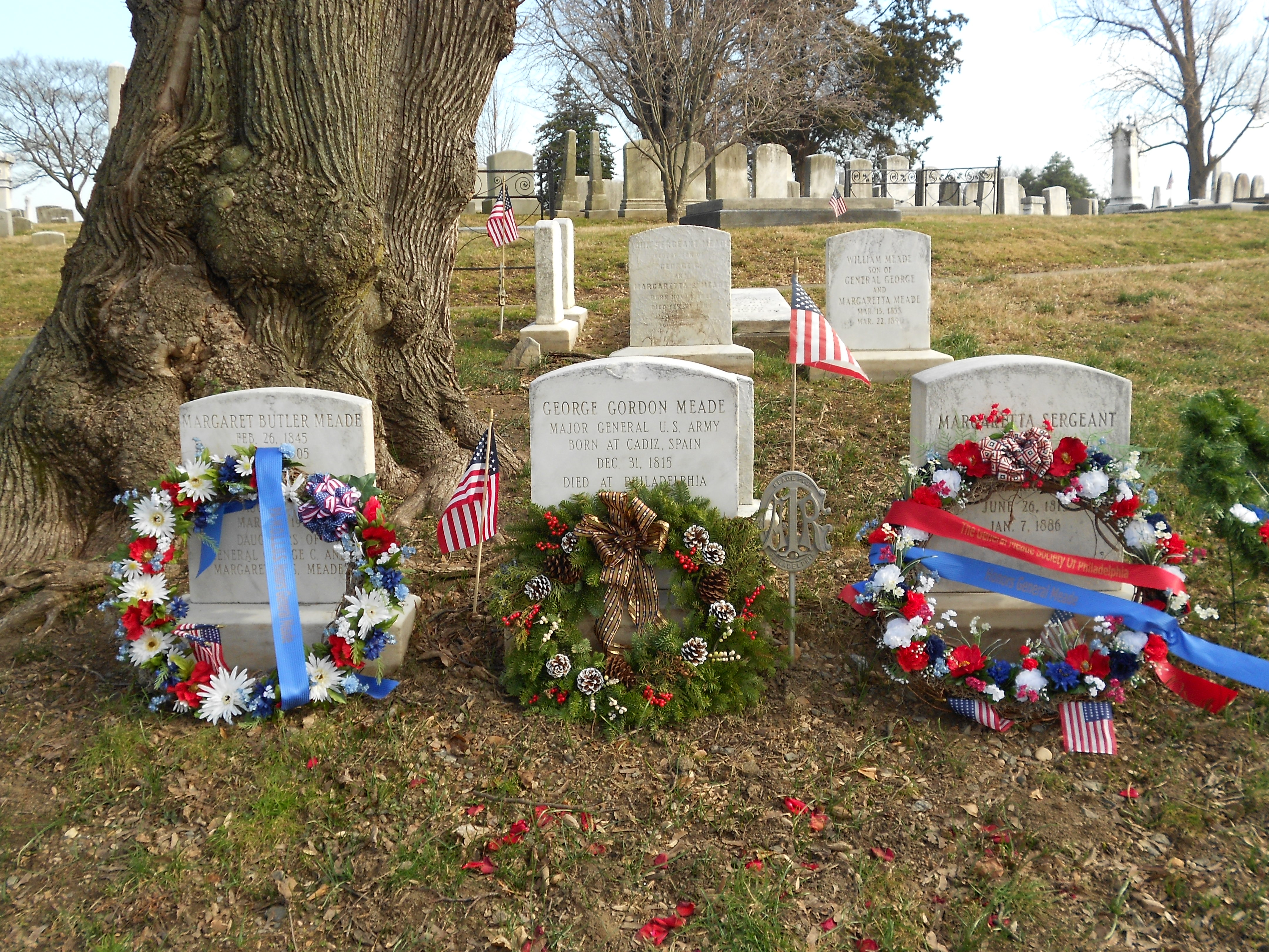 Greve of General George Gordon Meade (center) and family in the Laurel Hill Cemetery, Philadelphia.